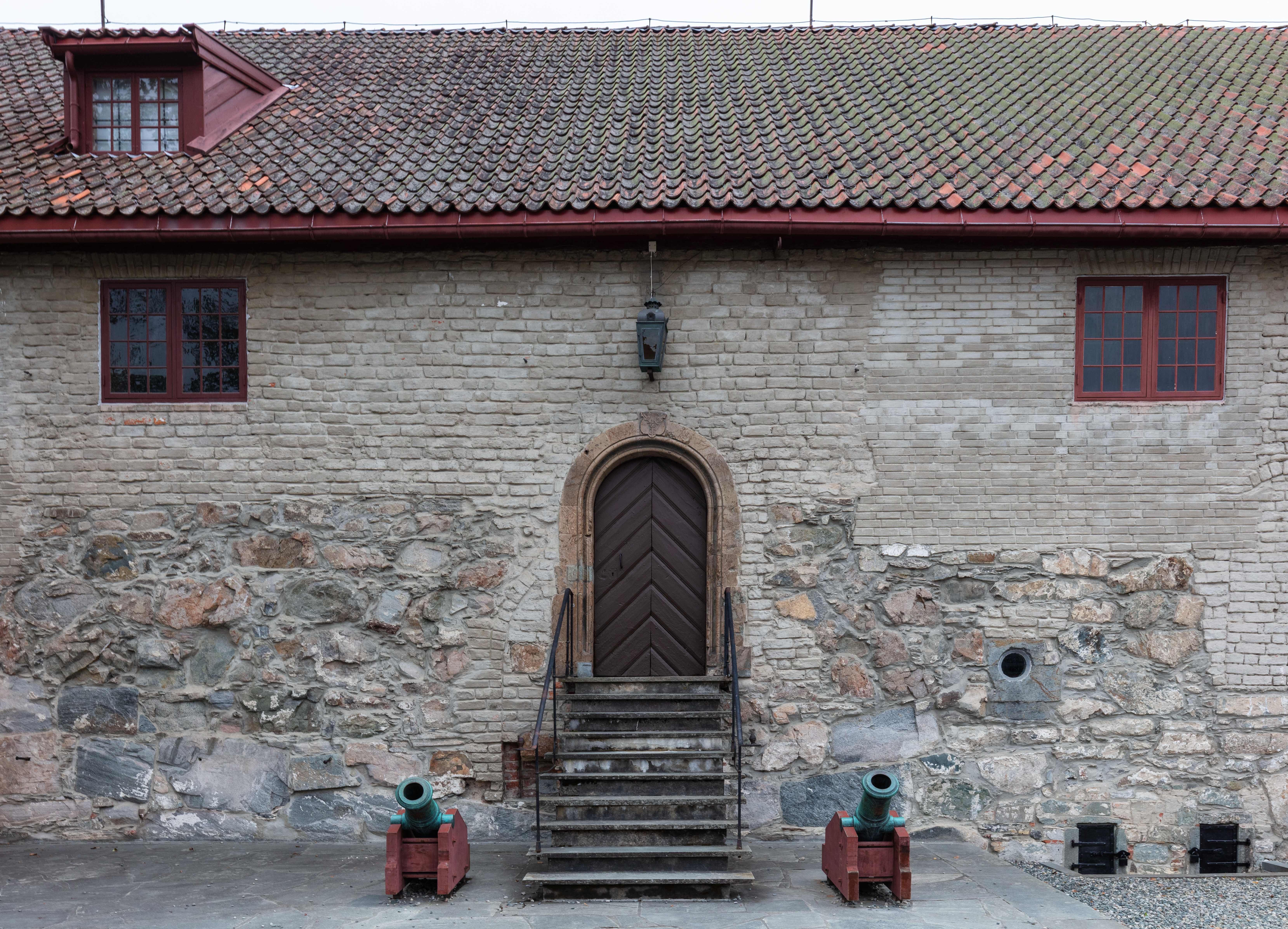 Archbishop's Palace, Trondheim, Norway